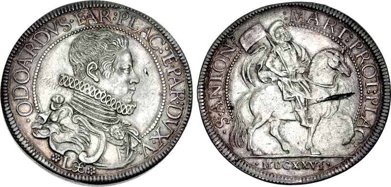 Italy, Piacenza. Odoardo Farnese, Duke of Parma and Piacenza, 1622-1646. AR Scudo (49mm, 31.84 g, 12h). Dated 1626. · ODOARDVS · FAR · PAR · (ET) · PLA · DVX · V ·, draped and armored bust right, wearing elaborate collar · S : ANTON : MART : PROT : PLAC ·, St. Antonino on horseback right, holding banner; · MDCXXVI · in exergue. CNI IX 11; Morosini 19; Davenport 4127. Near EF, toned, flaw flaw on reverse. From the HLT Collection.